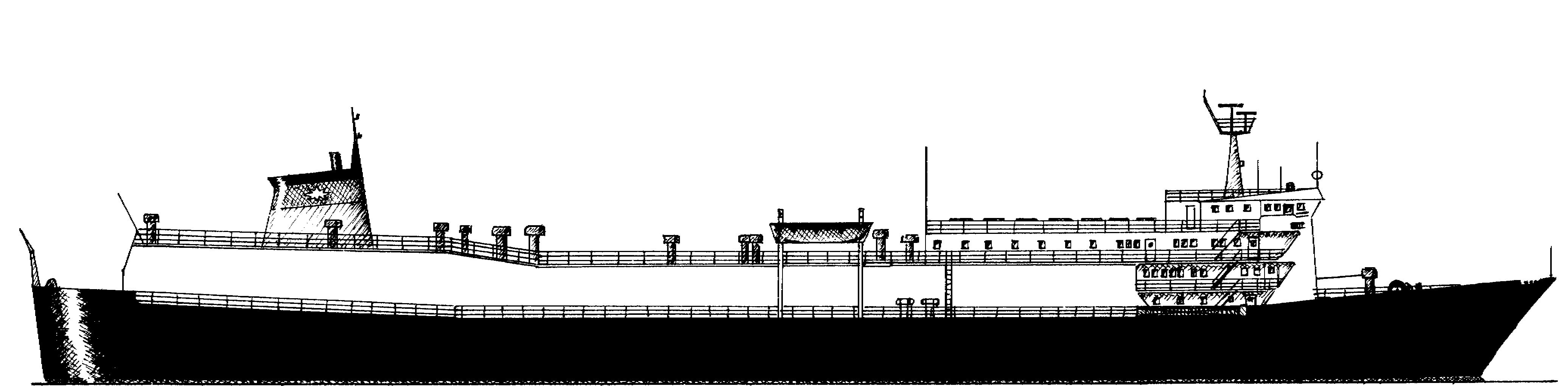 The RoRo freighter AQUILA (1973) one of the larger ships of the Argo Reederei remained in the company for only nine years and was mainly chartered out